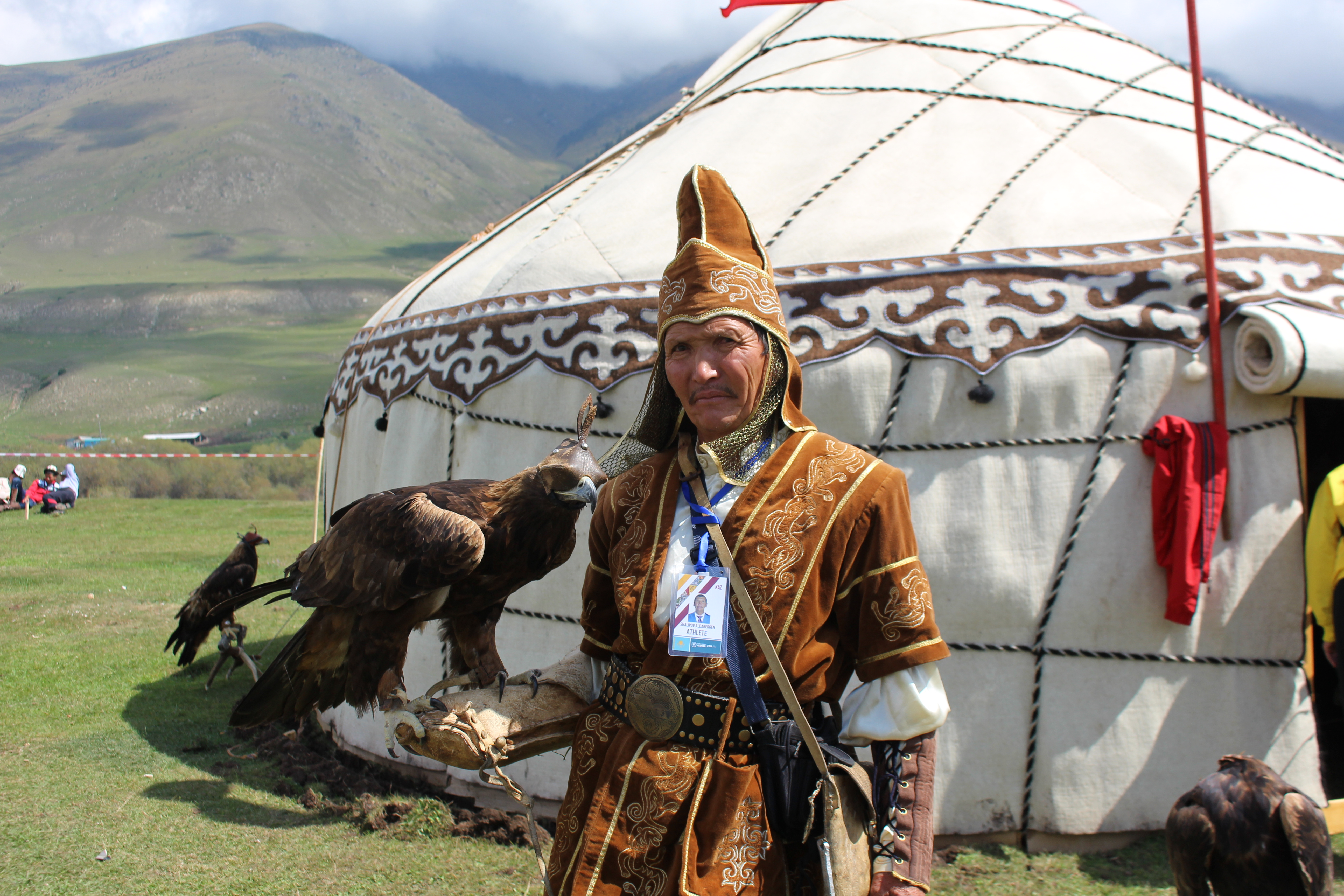 Nomadic village in Kyrgyzstan